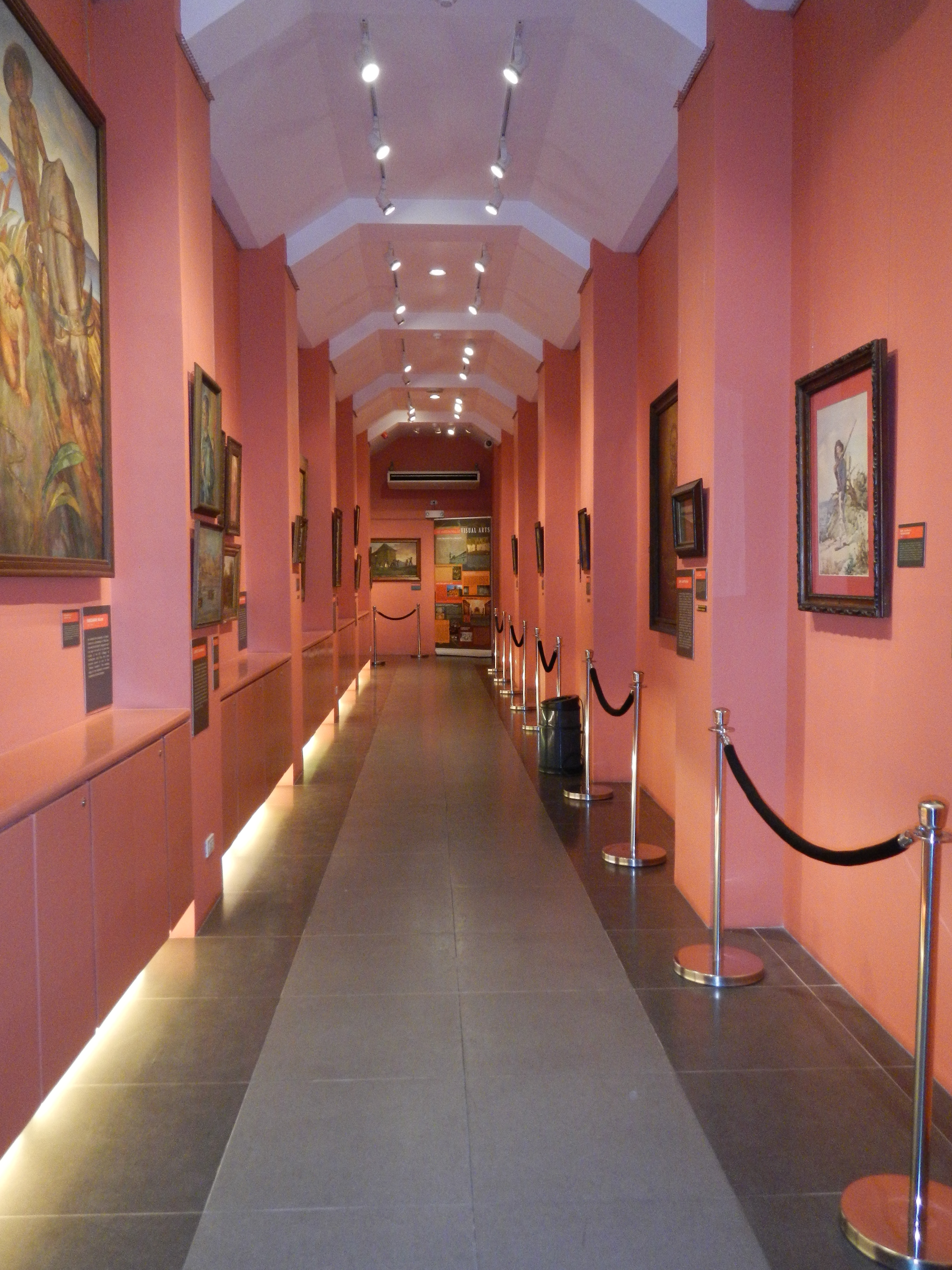 of Santo Tomas - UST Museum of Arts and Sciences in University of Santo Tomas, [1] Sampaloc, Manila - express permission was grated to herein editor by the Curator to photograph the entire 1st and 2nd floor of this Heritage NCCA museum; in some part, no flash was used due to requirements; all the subjects of the photos including photos or portraits are ageless, ancient and more than 80 years to 1,000 years, not covered by copyright restrictions.